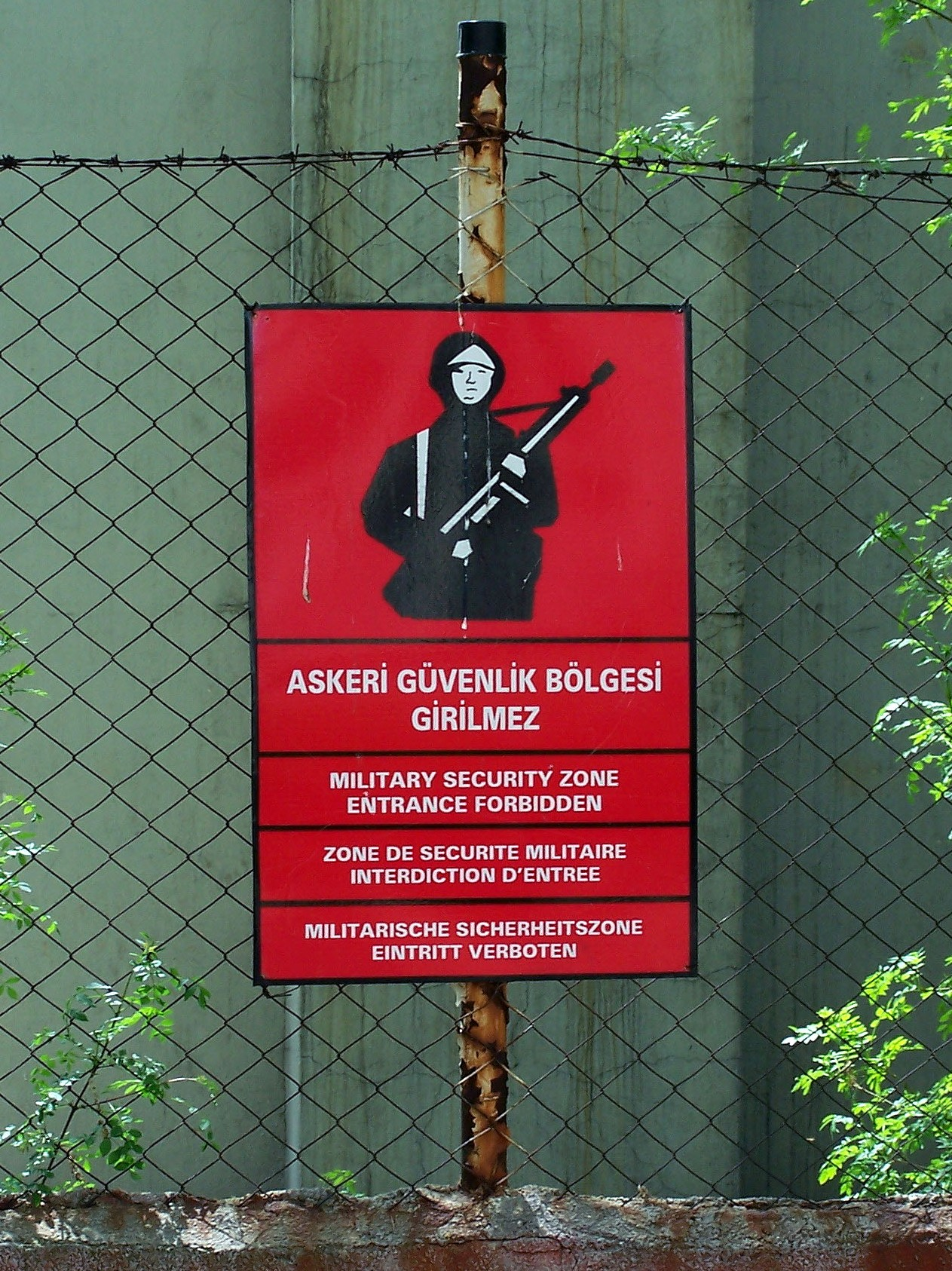 Warning sign at the fence of the military area in Kırklareli, Turkey